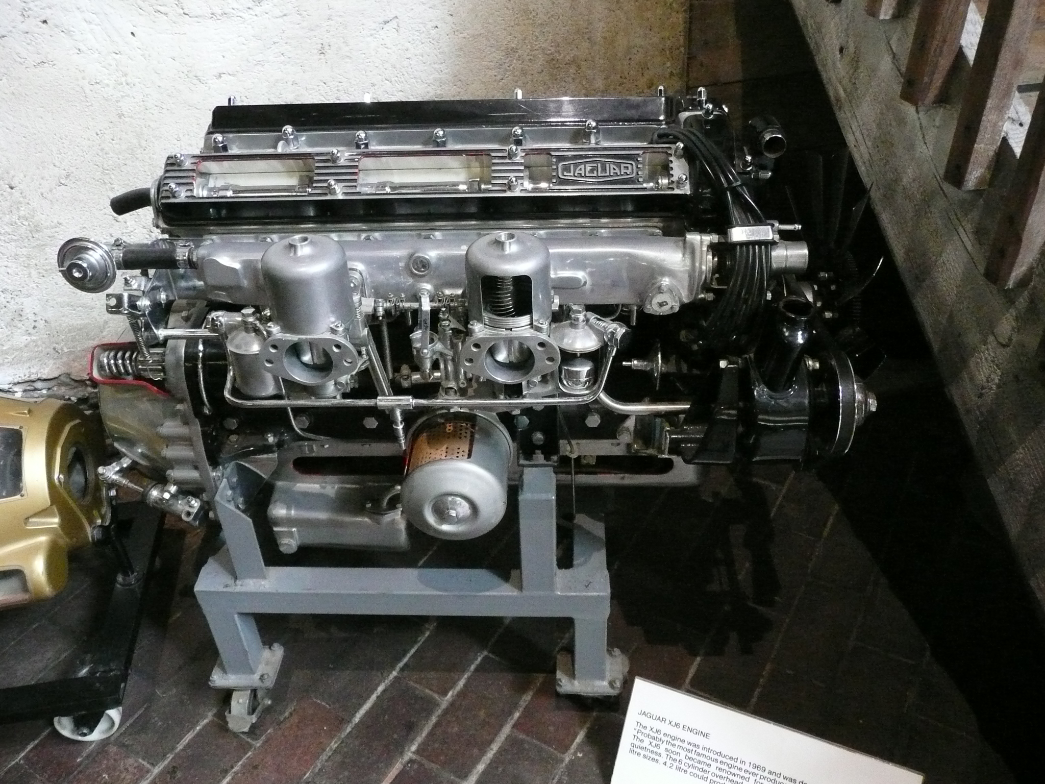 1969 Jaguar XK6 engine, National Motor Museum in Beaulieu.